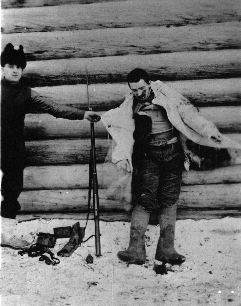 A Bolshevik shot by an American guard at Outpost No. 1 at 3:00 a.m. on the morning of January 8, 1919 when an enemy patrol of seven men attempted to creep up on the outpost position. This picture was taken to show the white cloak, which all the members of the patrol wore to conceal their movements in the snow. The clothing worn by the man was warm and in good condition. He carried, in addition to a hand grenade, which lies on the ground, a Remington rifle, in good condition, and a plentiful supply of ammunition. Village of Visokaya Gora, Ust' Paden'ga (Усть-Паденьга, currently part of the Shenkursk District), Vaga River Column (Arkhangelskaya Oblast), Russia. Jan. 8, 1919. (Official U.S. Army Signal Corps caption for photo 152821)